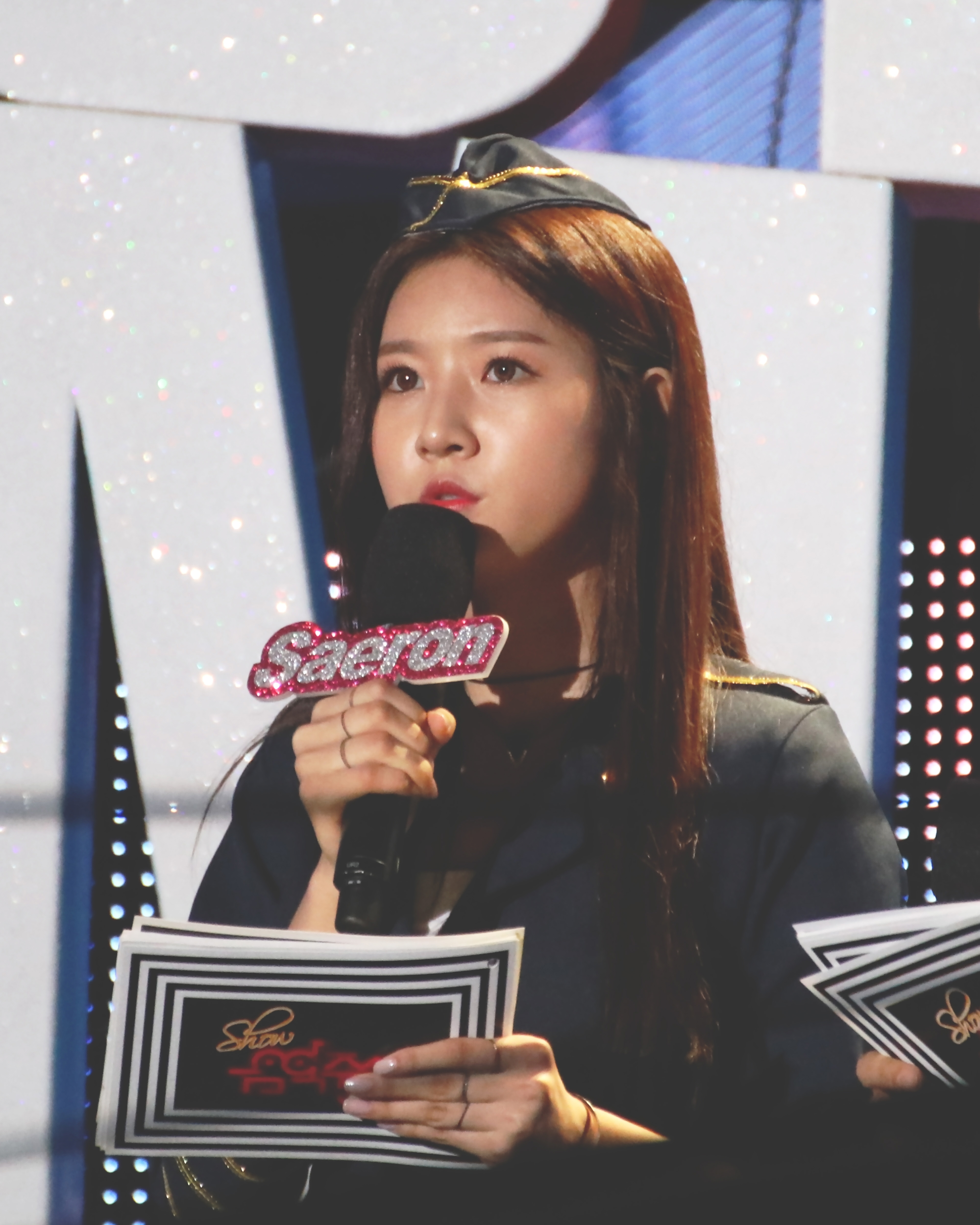 160903 2016 Incheon Sky Festival